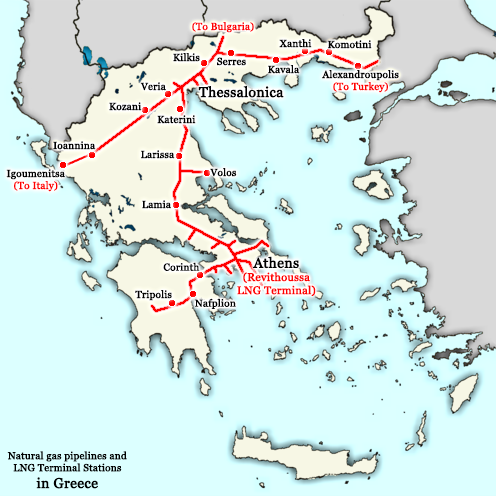 A map showing the approximate locations of natural gas pipelines in Greece : they run approximately from Alexandroupolis to Thessaloniki and then fork into two directions, one going towards Igoumenitsa (and later Italy) and the other towards Larissa, Lamia, Thiva, Athens, Corinth, Nauplio, and Tripolis. Note: this map also shows the planned Greece-Italy pipeline from Thessaloniki to Igoumenitsa which is not built yet. Greece maintains a powerful energy industry with particular emphasis on natural gas, managed by the DEPA company. This map is an approximation of the natural gas pipelines in Greece, based on information available from